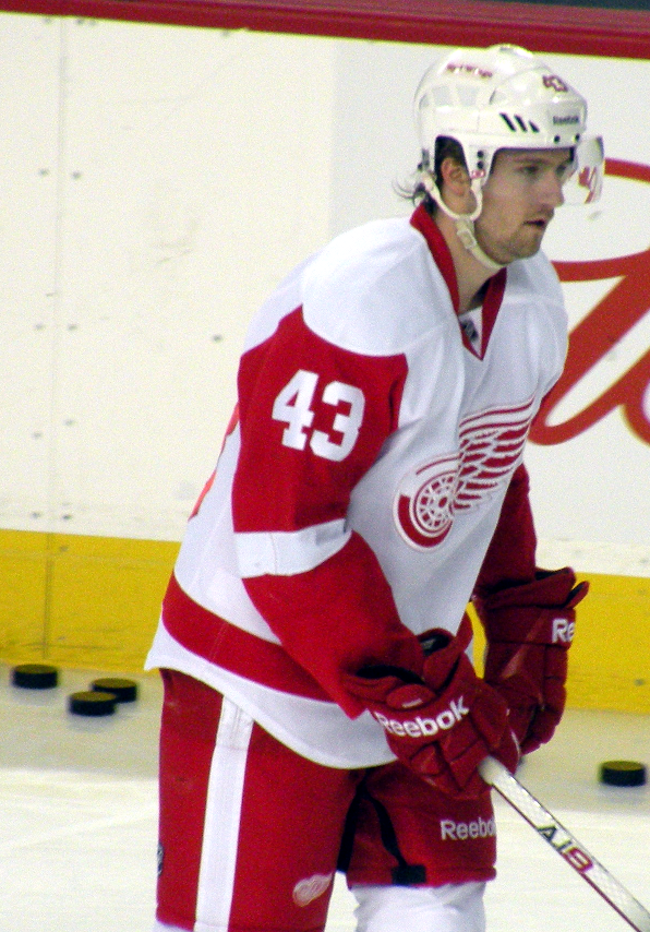 Detroit Red Wings forward Darren Helm prior to a National Hockey League game against the Calgary Flames.